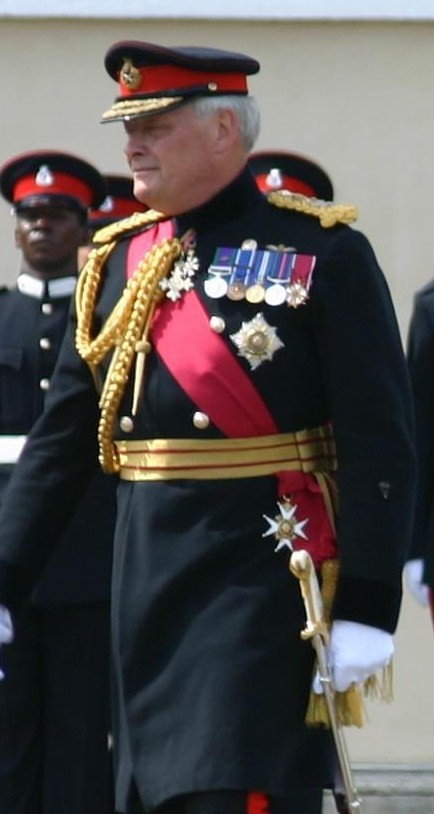 New Colours are presented to RMAS (Royal Military Academy Sandhurst). Officer Cadet Wales (Prince Harry of Wales - rightmost of the cadets, visible between the Chief of the Defence Staff and the horse) and his intake of Juniors are inspected by the then Chief of the Defence Staff, General Sir Michael Walker GCB, CMG, CBE, later Baron Walker of Aldringham